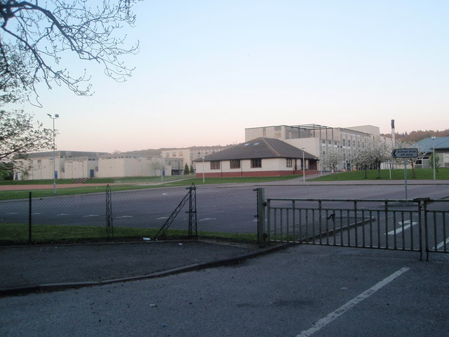 Inverness Royal Academy A typical example of 60s public architecture, complete with the dreaded red ash football pitch (a West Lothian sample of which your humble snapper has imbeded in his elbow to this day!). Strangely enough, this school is known to locals as "the IRA"...